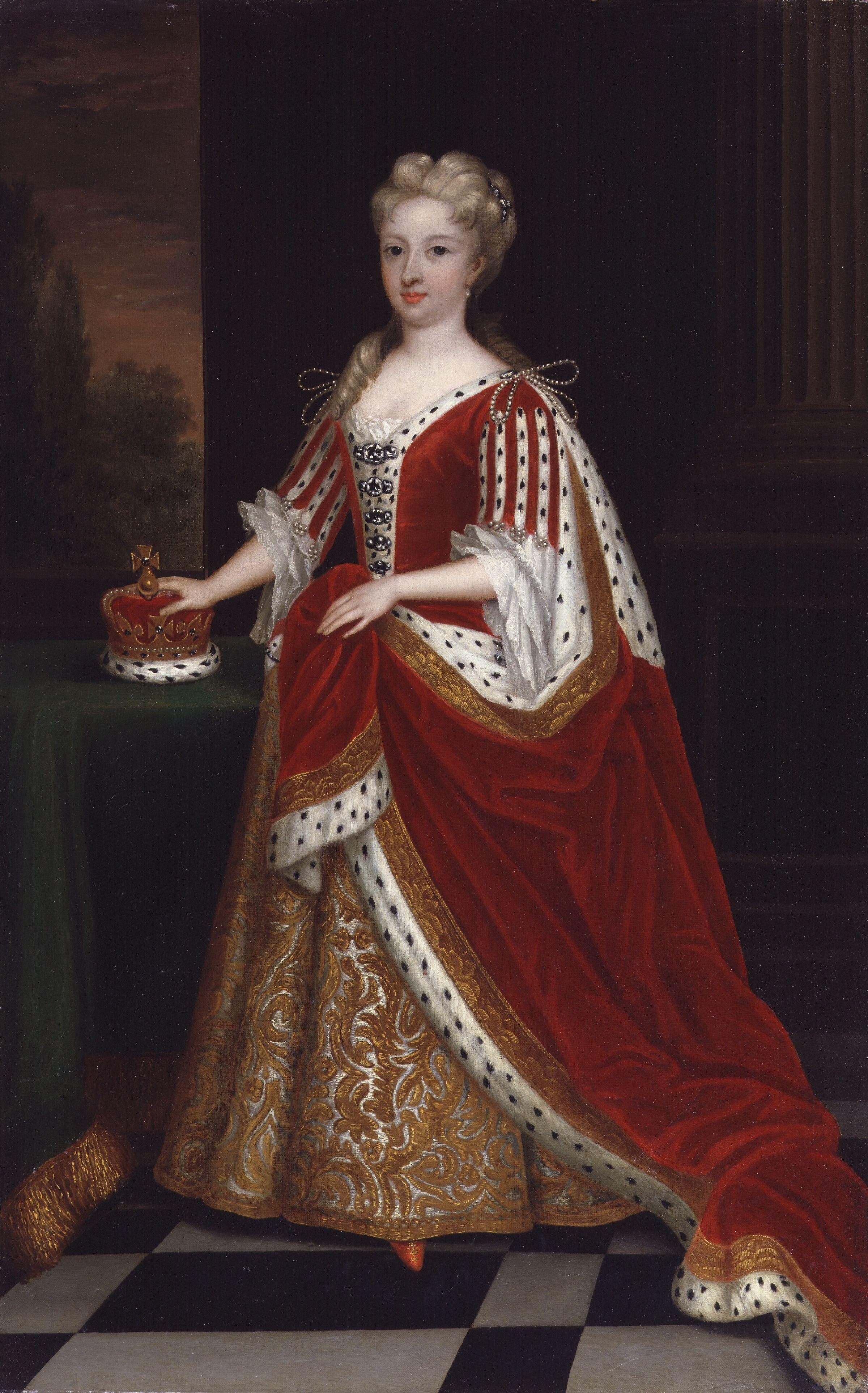 This is a copy of a portrait of Caroline of Ansbach made by Sir Godfrey Kneller in 1716, now at Buckingham Palace. Caroline wear robes of state and rests her hand on her crown as Princess of Wales. She would become Queen in 1727 on the death of her father-in-law, George I.